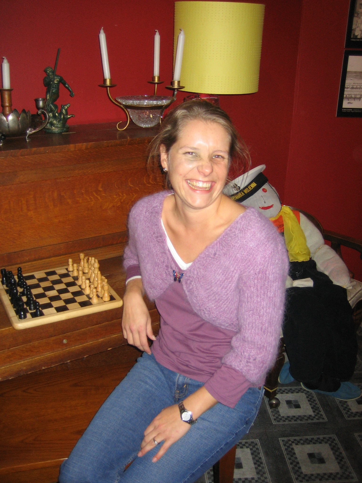 A picture of a woman wearing bolero jacket (shrug).Sweaterbabe Bolero on Shannon